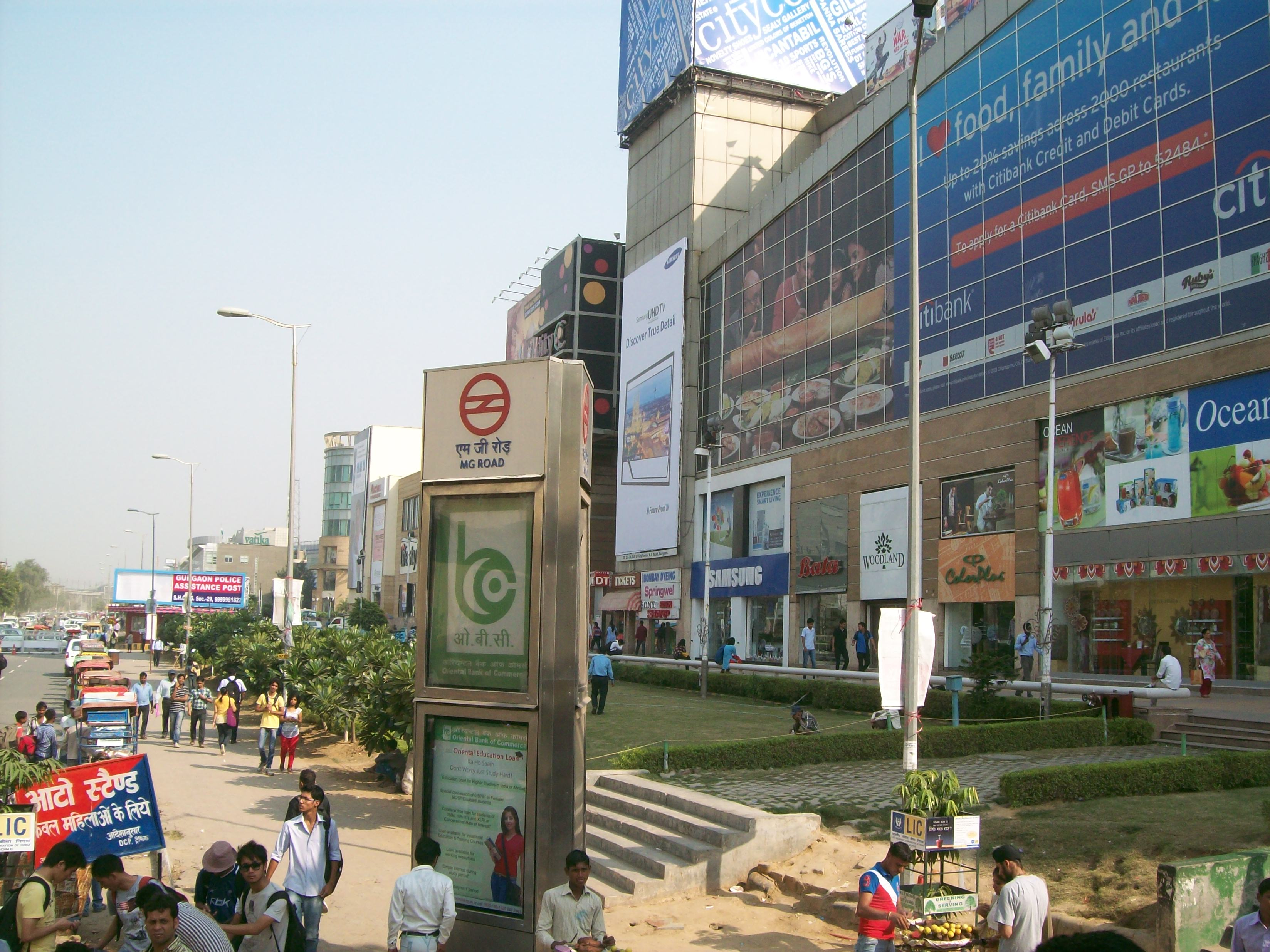 gurgoan